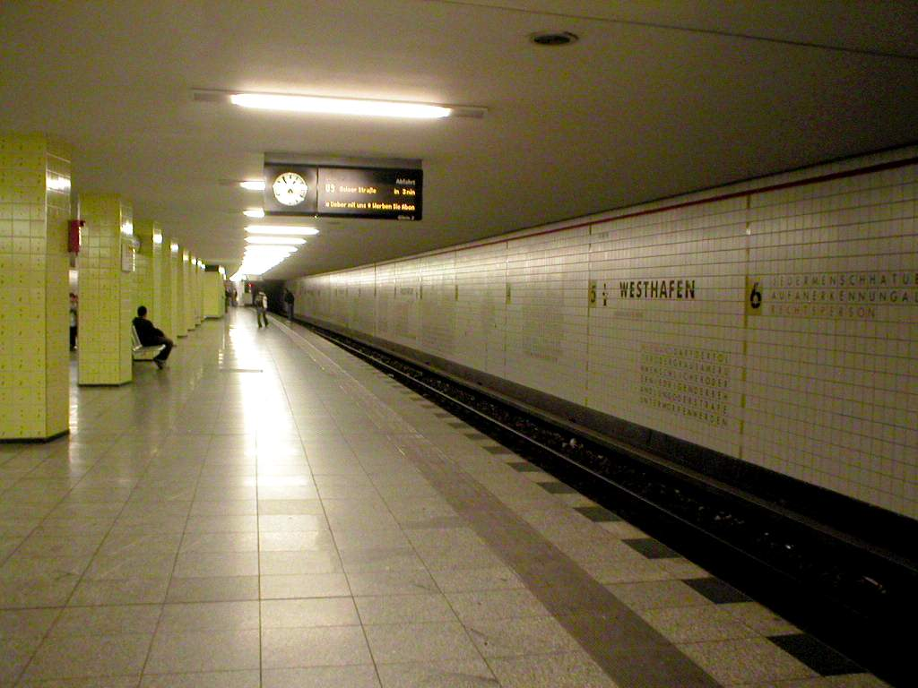 The station (Westhafen) is a public piece of art by artists Françoise Schein and Barbara Reiter